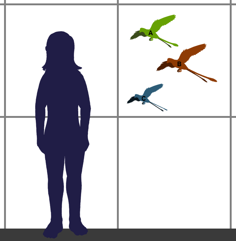 Size of genera in the extinct bird family Confuciusornithidae, compared to a human (1.75 meter tall). A. Changchengornis. Based on the holotype.[1] B. Confuciusornis. Based on several specimens of about the same size.[2] C. Eoconfuciusornis. Based on the holotype IVPP V11977.[3] References ↑ Chiappe L.M. et.al. (1999), "A new Late Mesozoic Confuciusornithid Bird from China", Journal of Vertebrate Paleontology 19(1): p. 1-7. ↑ Norell M.A. et.al. (1999), "Anatomy and systematics of the Confuciusornithidae (Theropoda: Aves) from the late Mesozoic of northeastern China", Bulletin of the American Museum of Natural History 242(10). ↑ Benton M.J. et.al. (2008), "A primitive confuciusornithid bird from China and its implications for early avian flight", Science in China Series D: Earth Sciences 51(5): p. 625–639 See also Chiappe L.M. et.al. (2008), "Life history of a basal bird: morphometrics of the Early Cretaceous Confuciusornis", Biological Letters 4(6): p. 719-723.